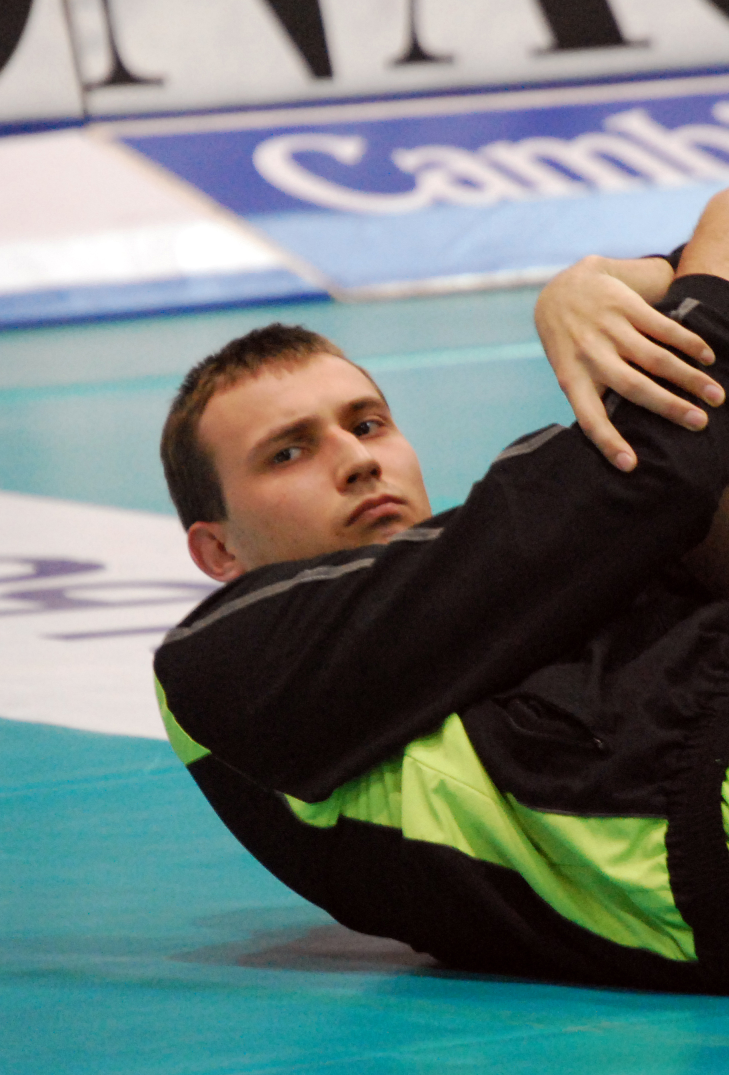 I took this pic during a volleyball match in Piacenza.